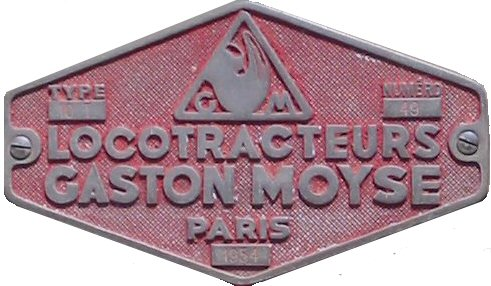 Builder sign of a Moyse switcher